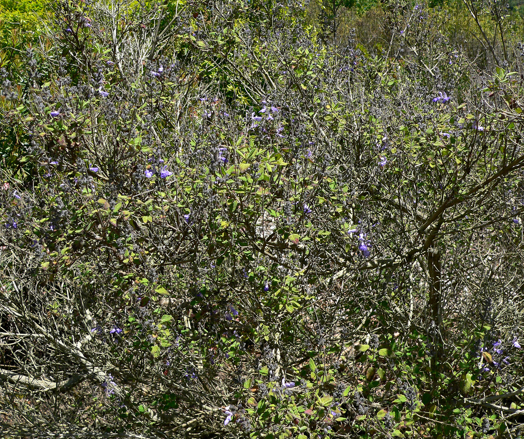 Salvia melissodora at the University of California Botanical Garden, Berkeley, California